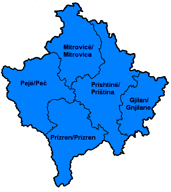 UNMIK Regions of Kosovo